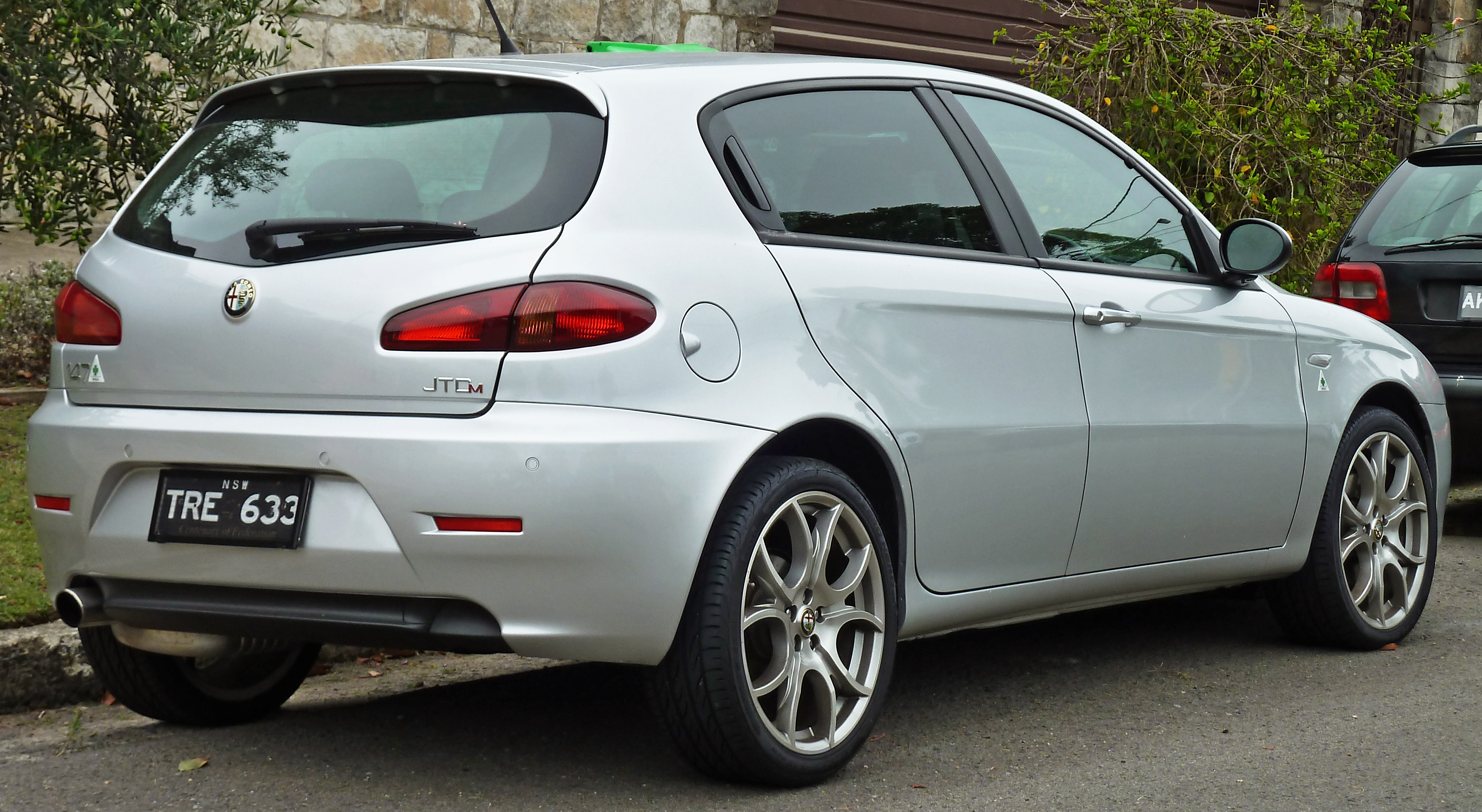 2008–2009 Alfa Romeo 147 JTD Monza 5-door hatchback. Photographed in Bellevue Hill, New South Wales, Australia.